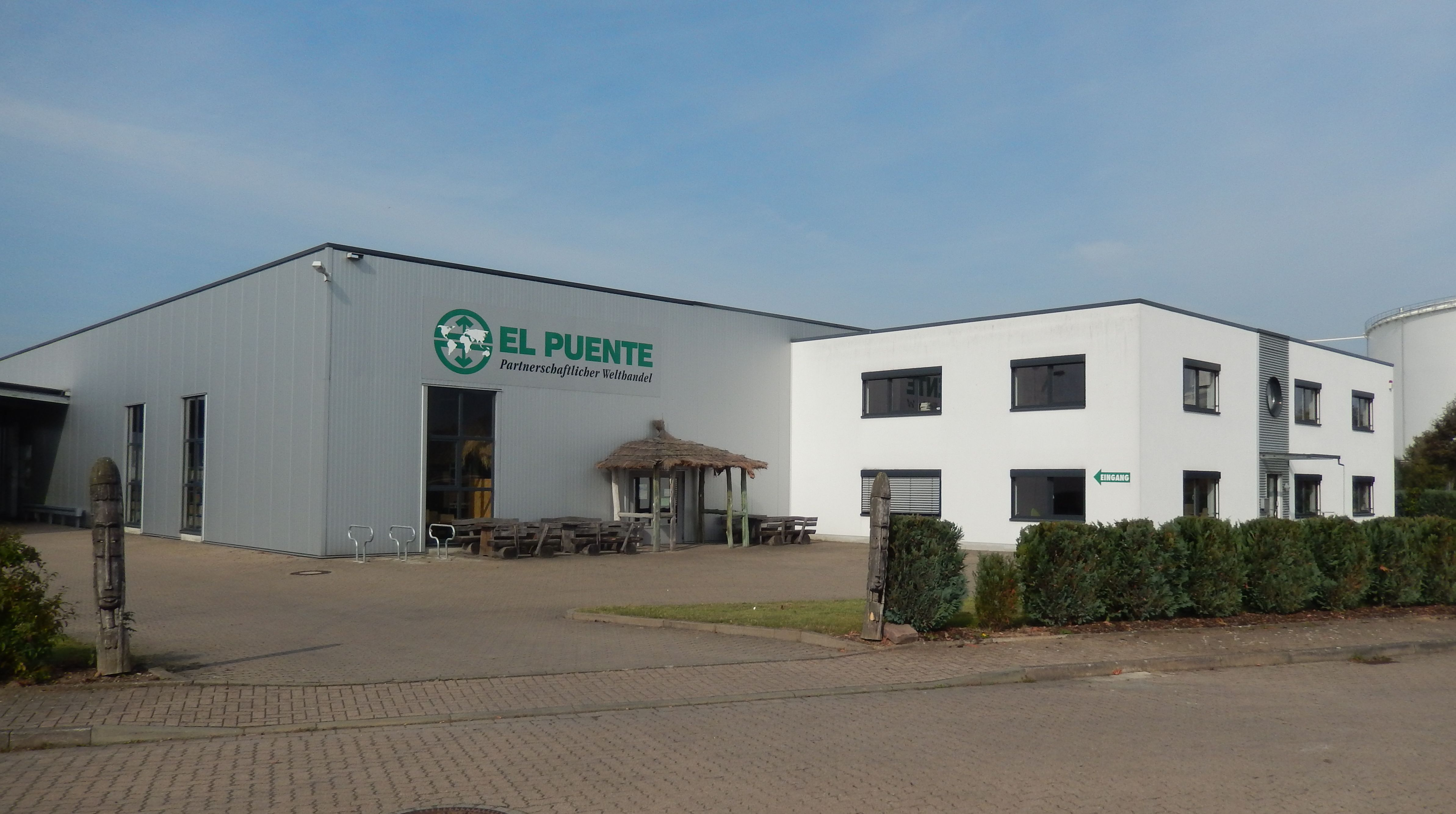 Buildings of El Puente Company in Nordstemmen, Germany.